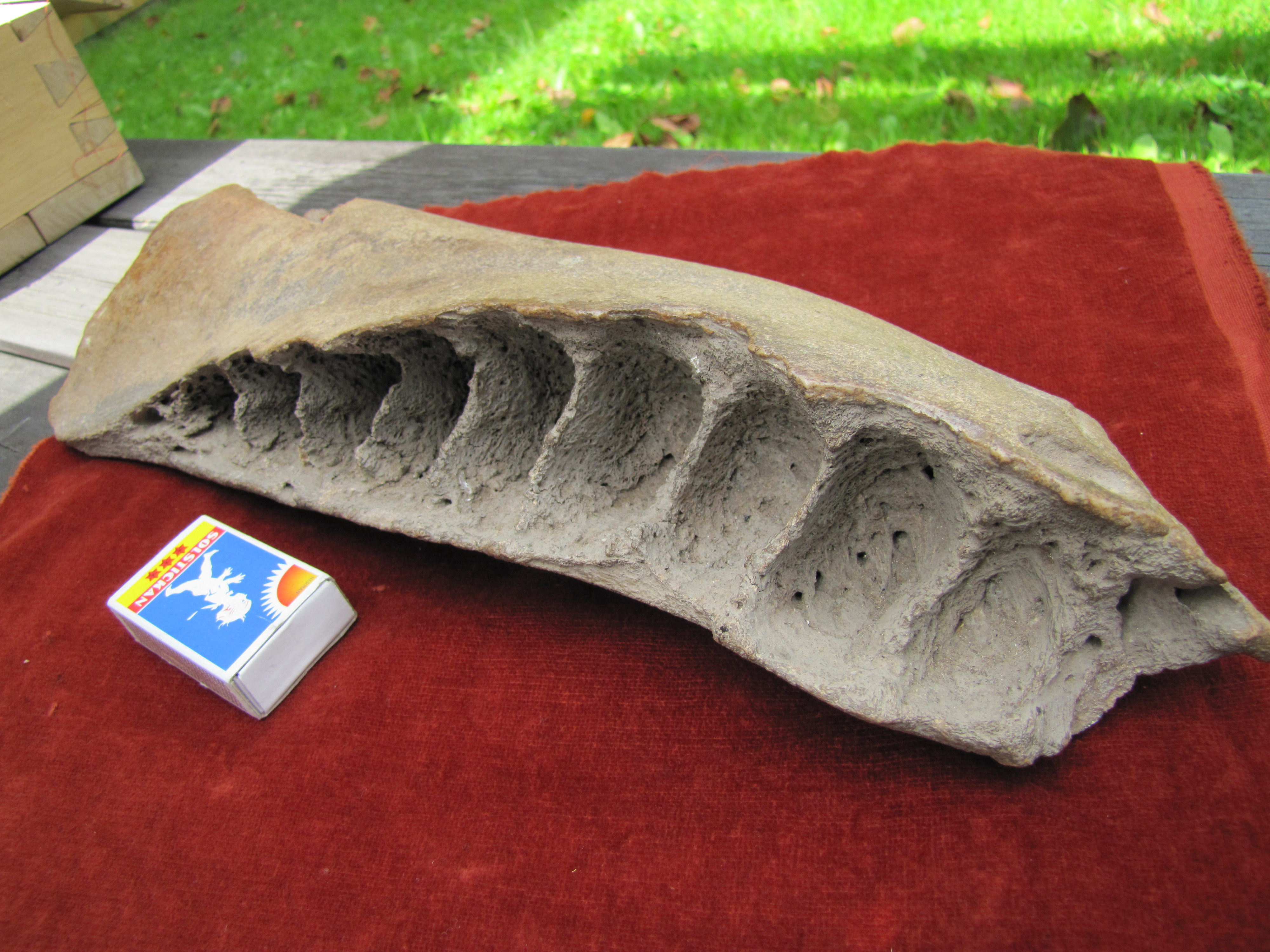 Lower jaw, possibly of a killer whale (Orcinus orca), kept in the archive of Nottebäck church in Sweden.